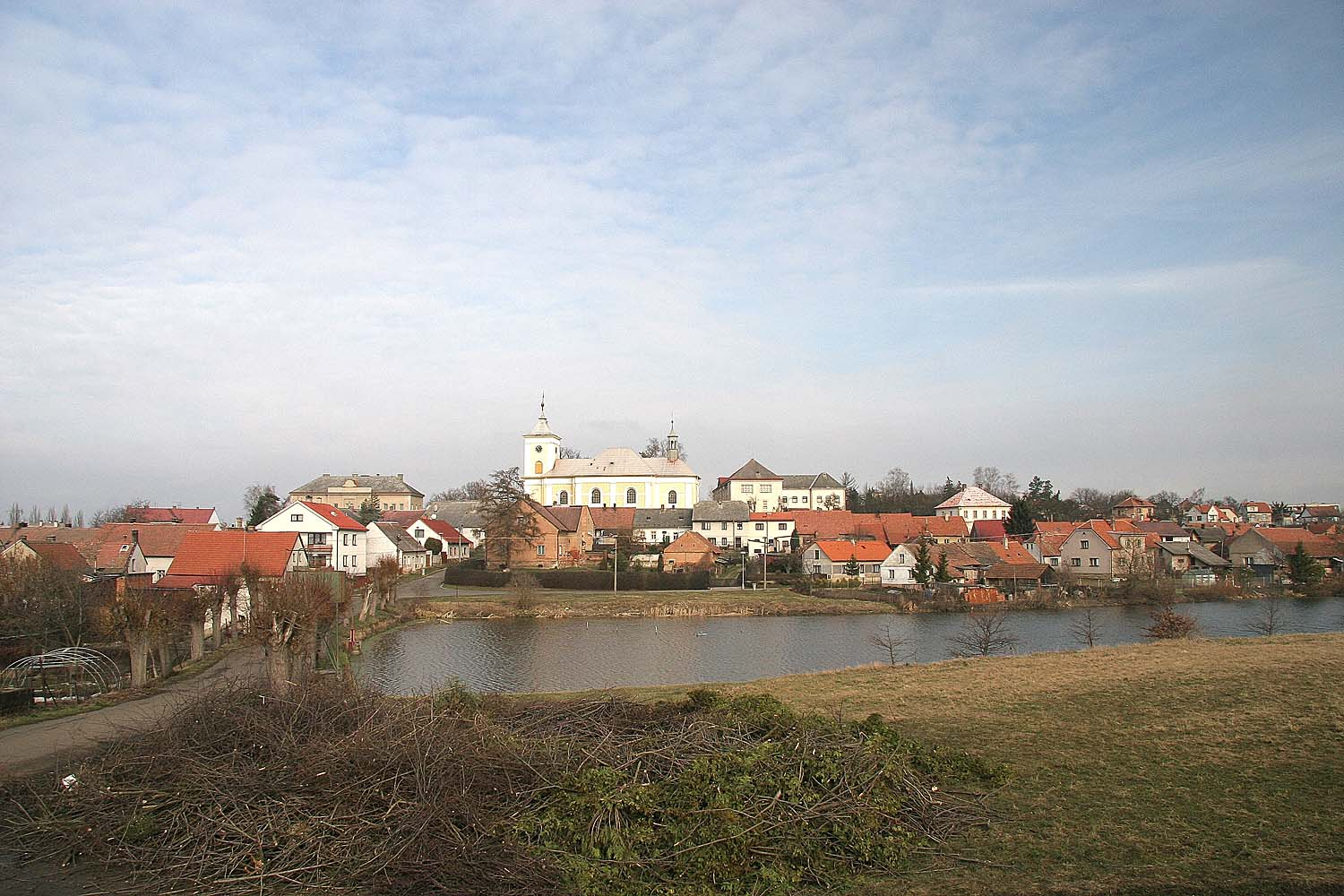 Vysoké veselí as seen from the cemetery autor:Prazak date:23. 2. 2007